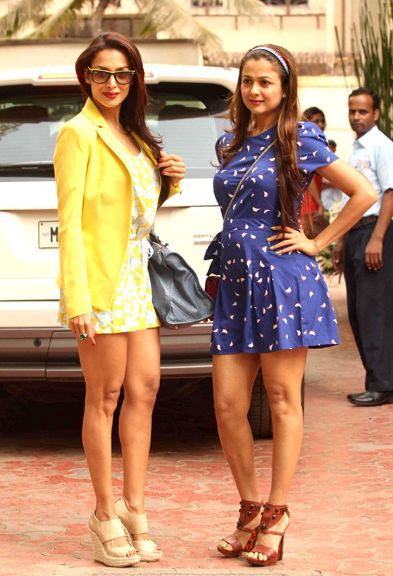 Malaika Arora, Amrita Arora at Shilpa Shetty's baby shower ceremony